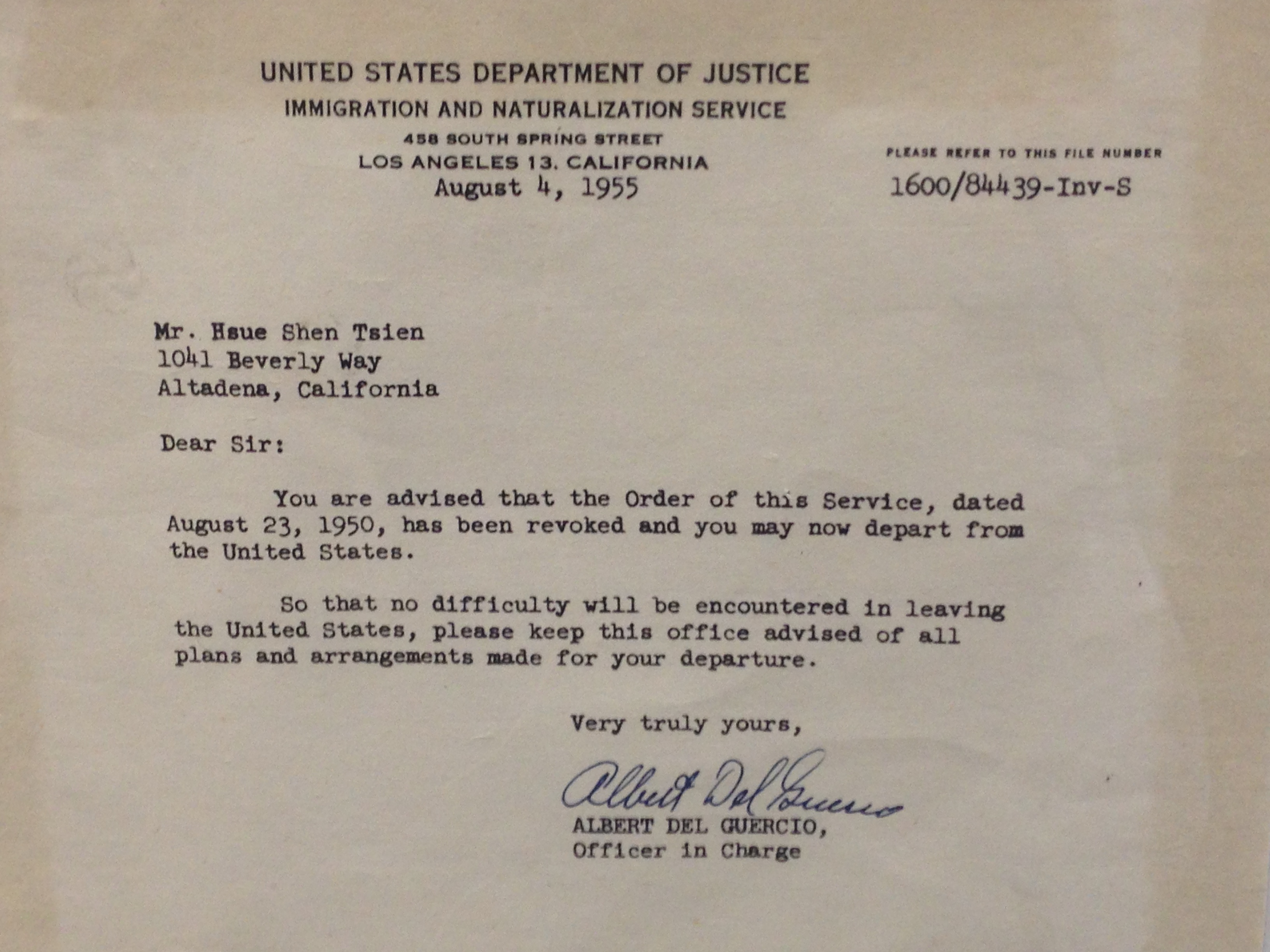 A letter from the US Immigration and Naturalization Service to Qian Xuesen, dated August 4, 1955, in which he was notified he was allowed to leave the US. The original copy is owned by Qian Xuesen Library of Shanghai Jiao Tong University, where the photo was taken.